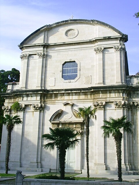 Town of Kaštel Lukšić, Croatia